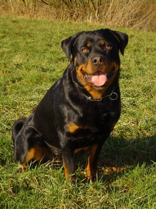 Male Rottweiler, 1½ years old